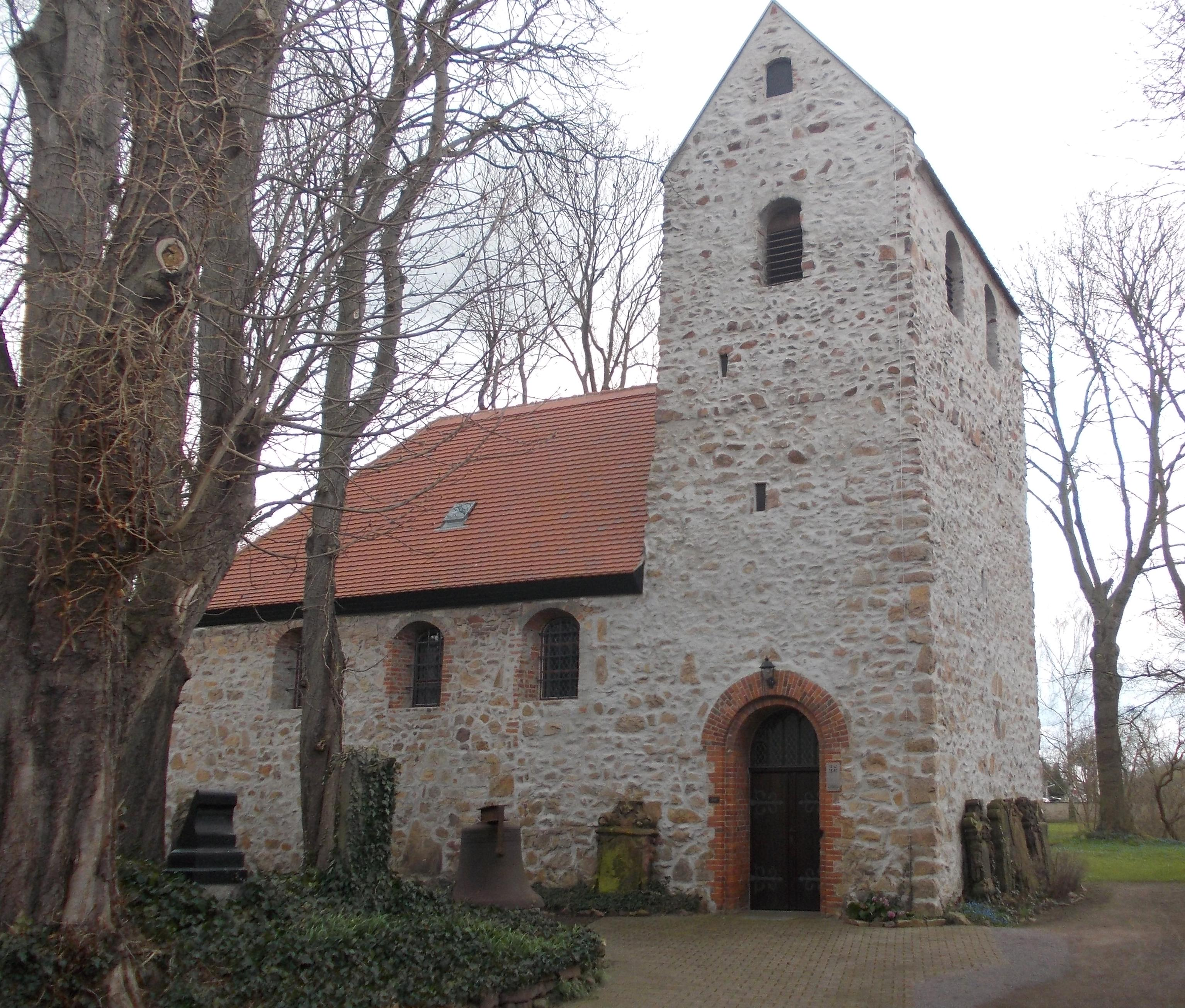 St. Nicholas' Church in Braschwitz (Landsberg, district: Saalekreis, Saxony-Anhalt)